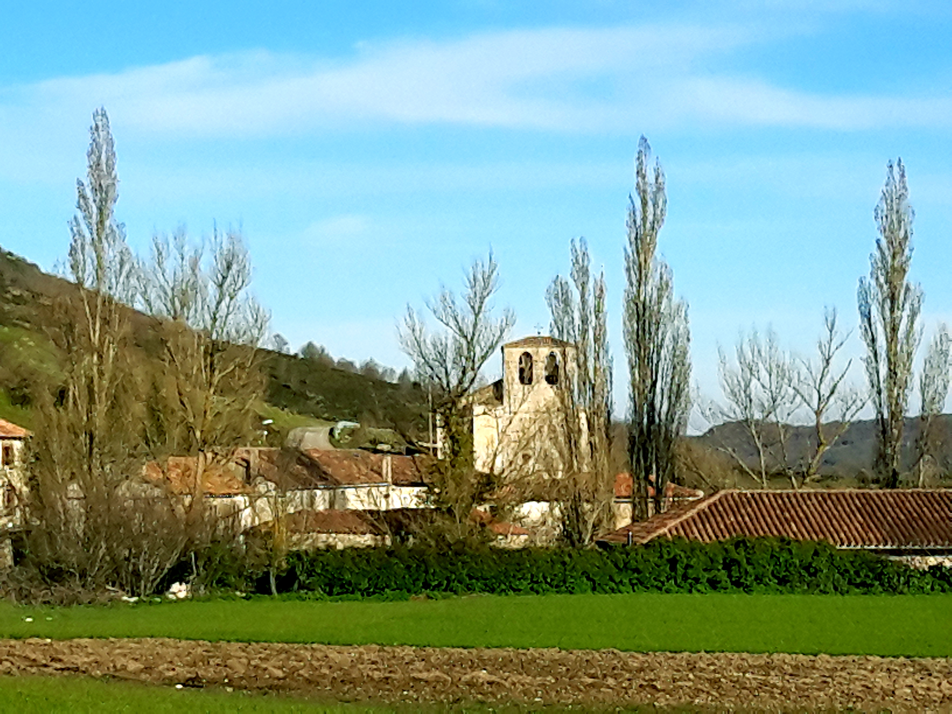 Arcellares del Tozo, Basconcillos del Tozo, Burgos, Castile and León, Spain